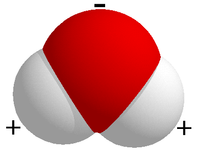 The water molecule with its electric charges